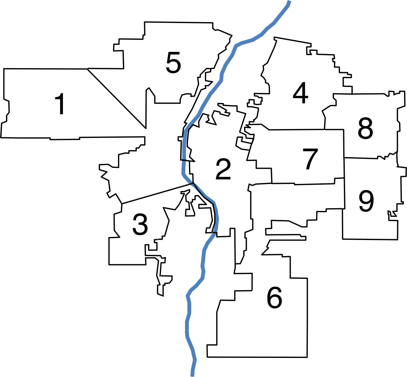 A map of the city council districts of Albuquerque, New Mexico, created with photoshop tools.